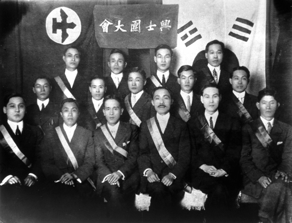 1916 Heungsadan's annual convention, 1916 in L.A